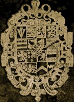 Armorial bookstamp of Robert Sidney, 1st Earl of Leicester (d.1626). In 1600 he donated £100 to the Bodleian Library in Oxford, which purchased with it 55 foreign books, all of which were imprinted with Sidney's armorial stamp. The heraldry is as follows: Quarterly of sixteen: 1. A pheon (Sydney) 2. Barry of ten a lion rampant crowned (Brandon) 3. A lion rampant double queued (Dudley) 4. Two lions passant (Somerie) 5. Barry of six in chief three torteaux roundels a label of three points for difference (Grey, Viscount Lisle) 6. A maunch (Hastings) 7. A wolf's head erased (Lupus, Earl of Chester) 8. Barry of ten as many martlets in orle (de Valence, Earl of Pembroke) 9. A lion rampant (Marshall, Earl of Pembroke) 10. Seven mascles conjoined three and one (Ferrers of Groby) 11. A lion rampant within a bordure engrailed (Talbot) 12. A fess between six crosses crosslet (Beauchamp) 13. Checky, a chevron ermine (Newburgh, Earl of Warwick) 14. A lion statant guardant crowned (Baron de Lisle) 15. A chevron (Tyes) 16. A fess dancetty (West); over-all an escutcheon of pretence: quarterly: 1. Five fusils in bend on a chief three escallops (Gamage) 2. Vair (Martel?) 3. Checky, a fess ermine (Turberville of Coity) 4. Three chevrons (Llewellyn)